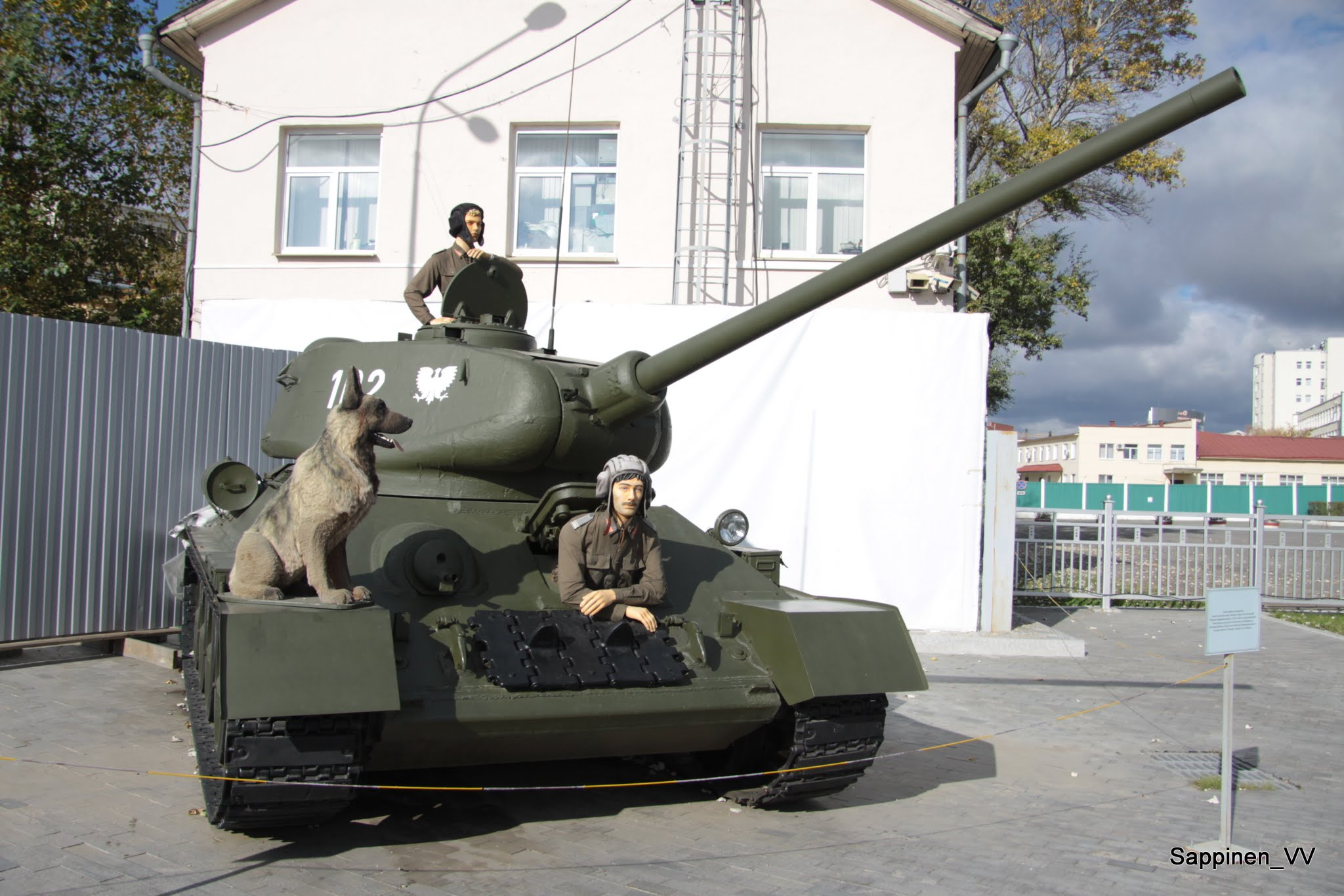 Verkhnyaya Pyshma Tank Museum 2012